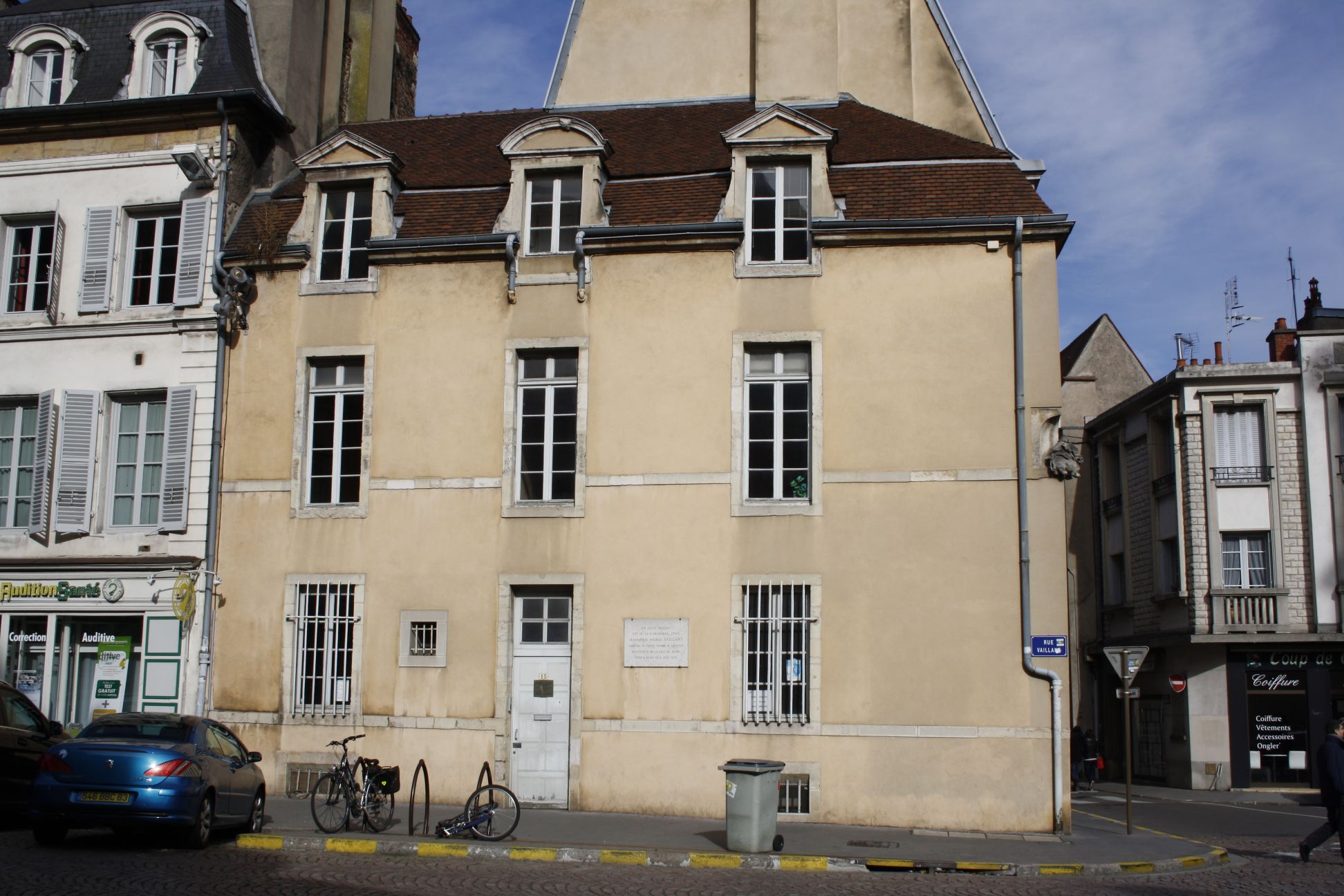 The born house of Jean-Baptiste Philibert Vaillant in Dijon (Côte-d'Or, Bourgogne, France).